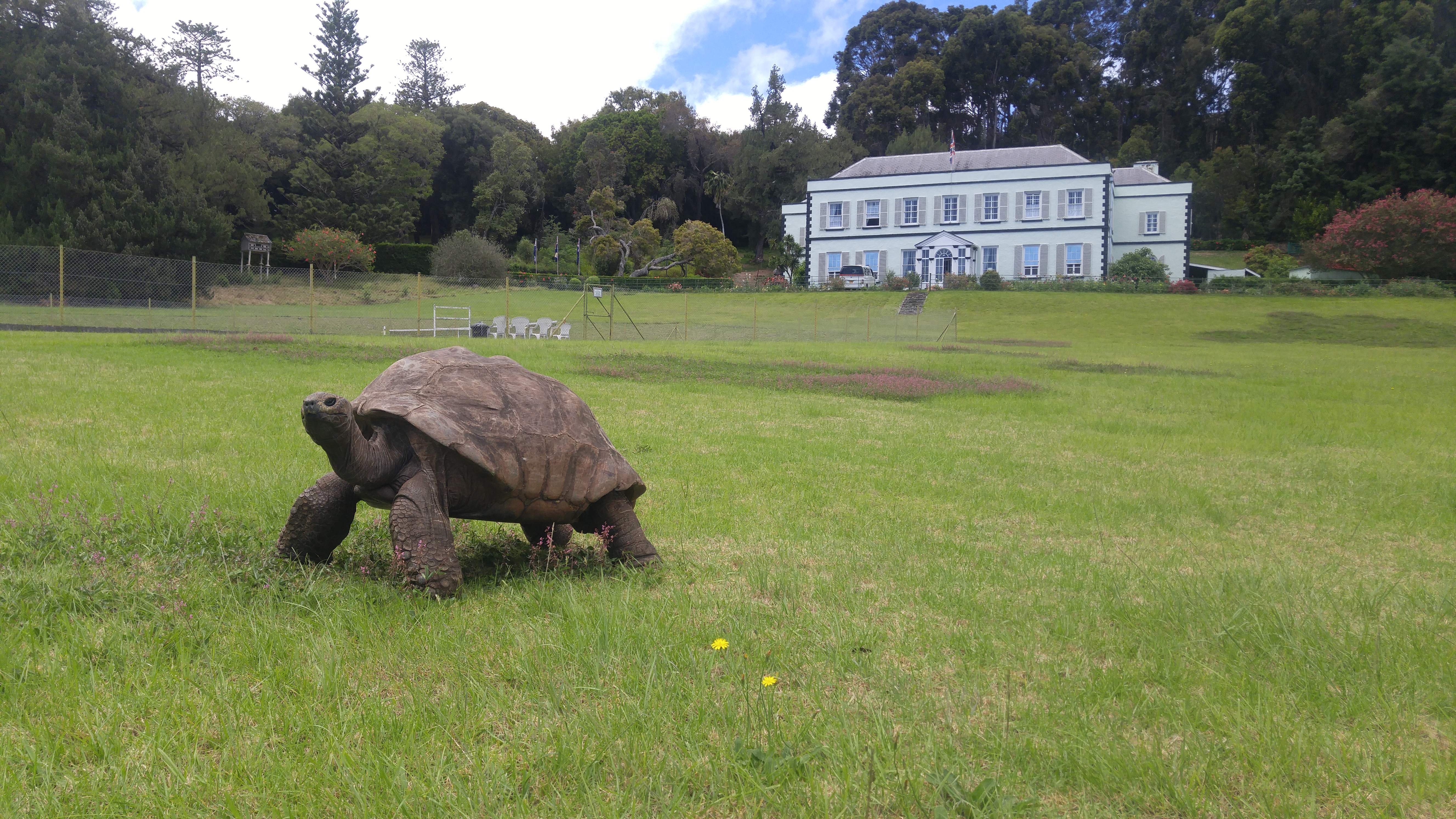 Tortoise Jonathan at Plantation House Saint Helena March 2020. Jonathan was hatched c. 1832 in the Seychelles and brought to Saint Helena in 1882.